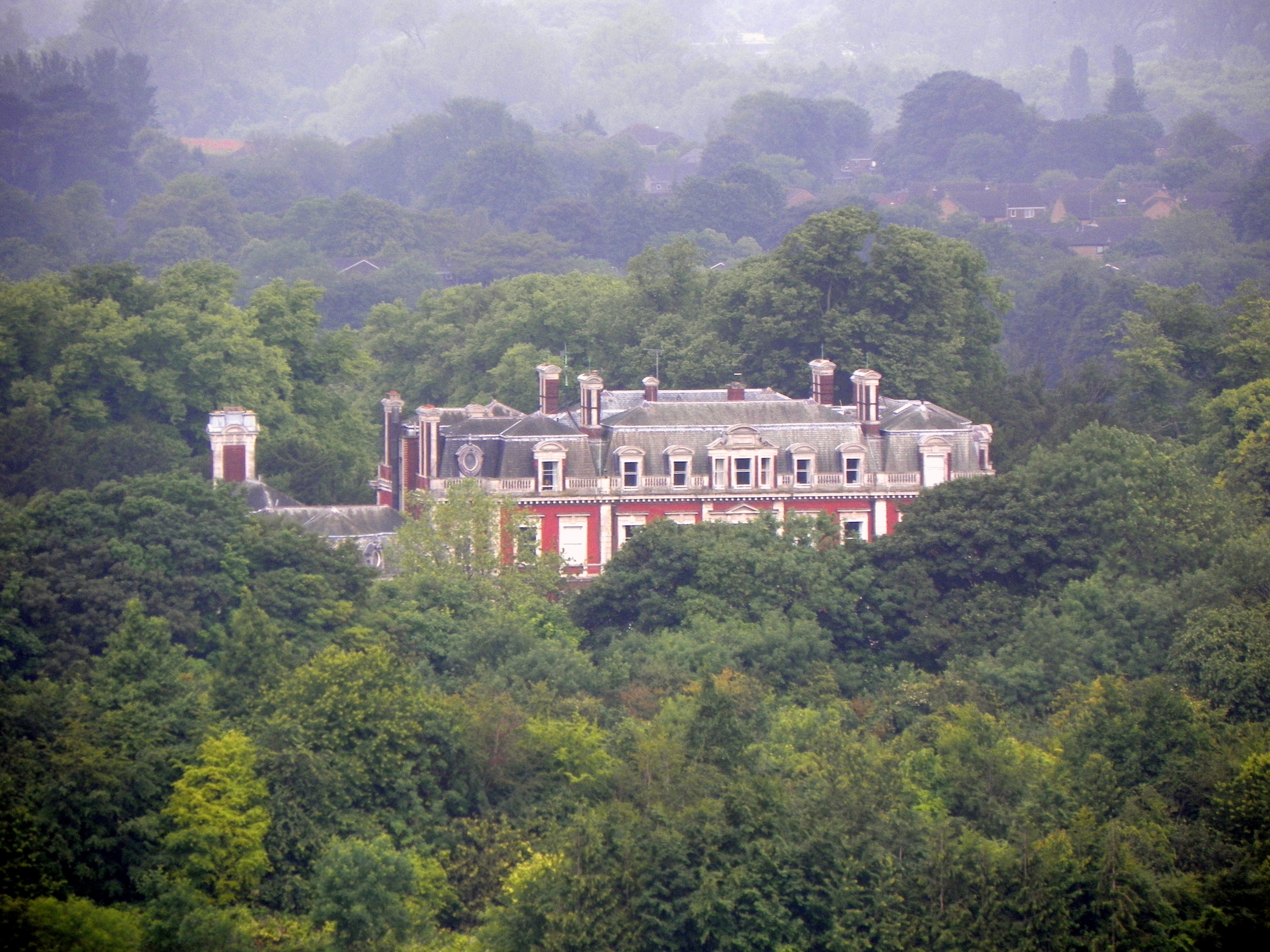 In the poor conditions, this was the best photo I could get from a distance of Tring Park Mansion (Grade II* listed building), Tring Park, Tring, Hertfordshire.